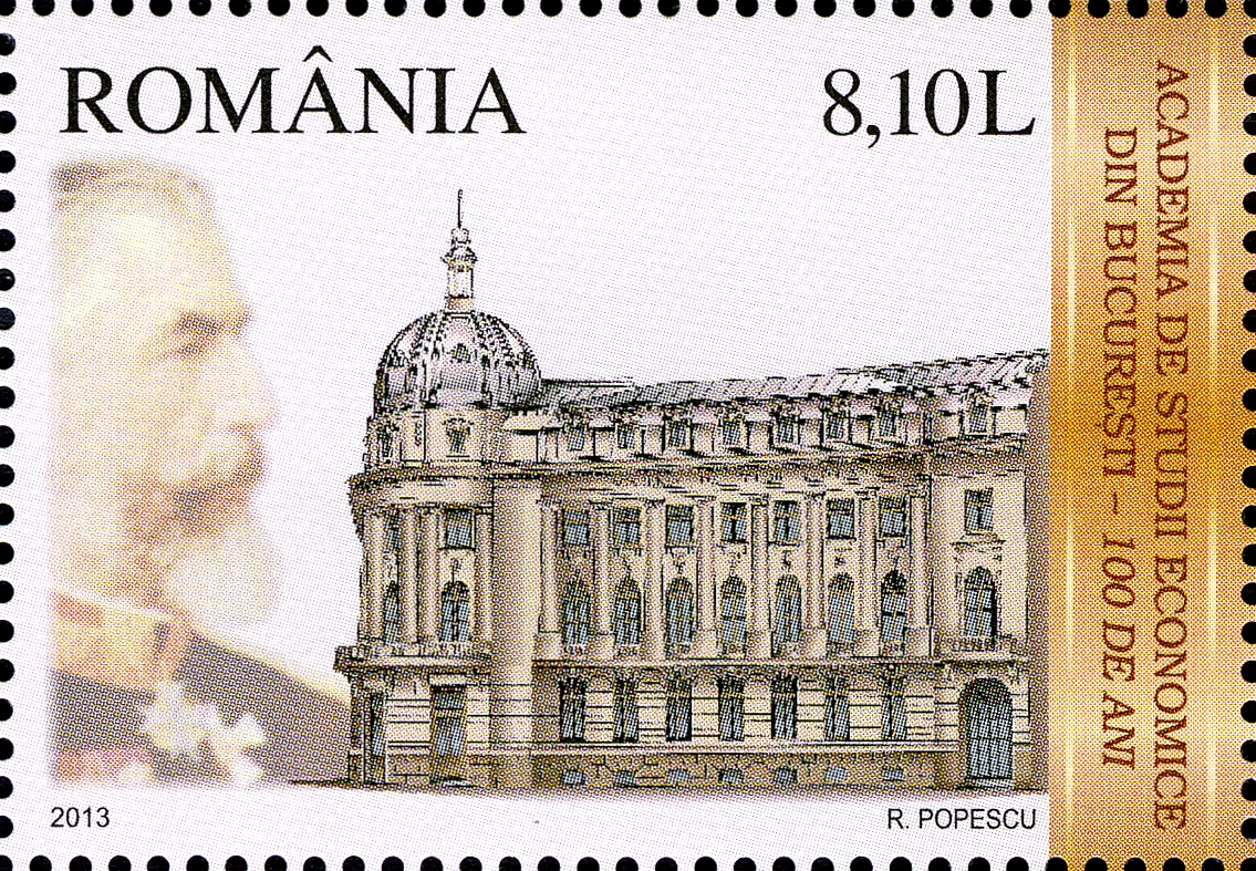 Stamps of Romania, 2013